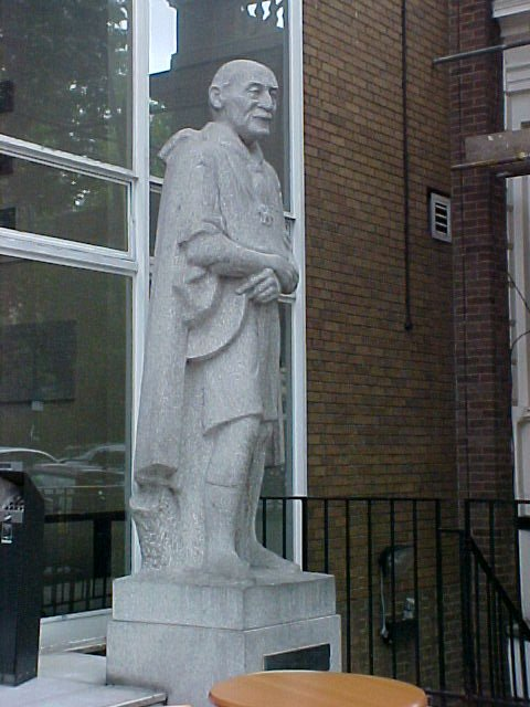 Picture of the statue of Robert Baden-Powell, made by Don Potter in 1960. The statue is located in front of Baden-Powell House in London.